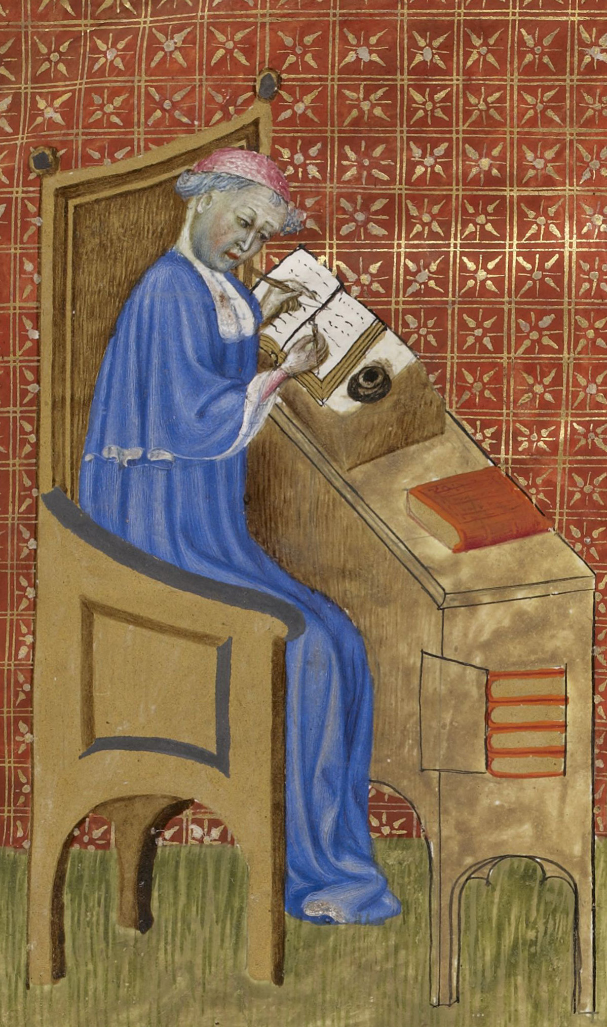 First page of the book "Traité de l'espère". The miniature represents Nicole Oresme busy at his studies, with an armillary sphere in the foreground.